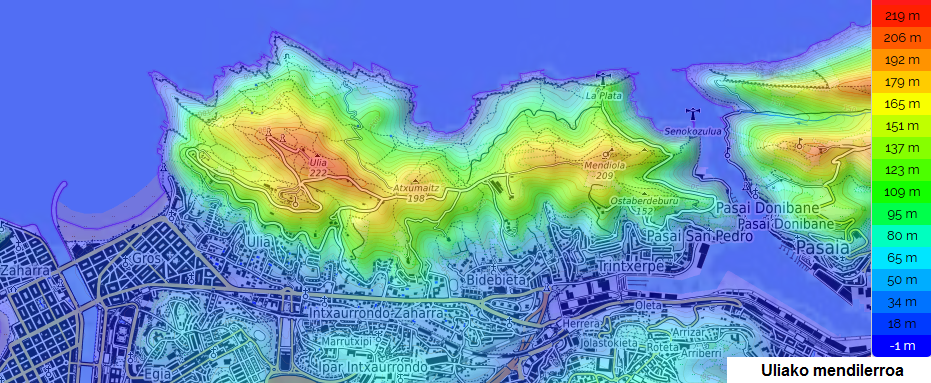 Topographic map showing the Ulia Range.